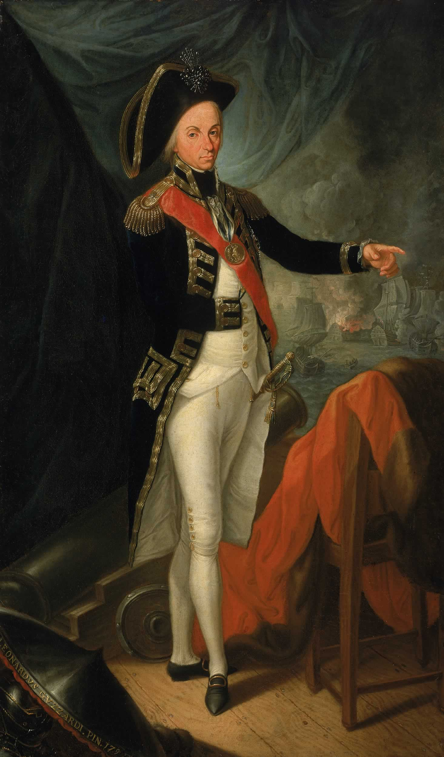 Rear-Admiral Horatio Nelson (1758-1805) Noteː Key differences with BHC2896; BHC2895 is the original version, the artist signed it, it's a smaller size, Nelson wears one gold medal (St Vincent) instead of two (Nile and St Vincent).